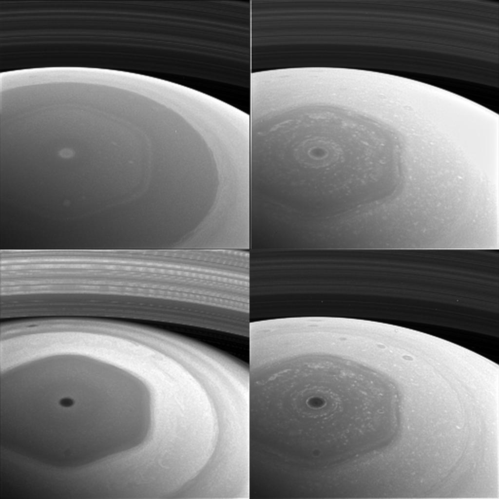 This collage of images from NASA's Cassini spacecraft shows Saturn's northern hemisphere and rings as viewed with four different spectral filters. Each filter is sensitive to different wavelengths of light and reveals clouds and hazes at different altitudes. Clockwise from top left, the filters used are sensitive to violet (420 nanometers), red (648 nanometers), near-infrared (728 nanometers) and infrared (939 nanometers) light. The image was taken with the Cassini spacecraft wide-angle camera on Dec. 2, 2016, at a distance of about 400,000 miles (640,000 kilometers) from Saturn. Image scale is 95 miles (153 kilometers) per pixel. The images have been enlarged by a factor of two. The original versions of these images, as sent by the spacecraft, have a size of 256 pixels by 256 pixels. Cassini's images are sometimes planned to be compressed to smaller sizes due to data storage limitations on the spacecraft, or to allow a larger number of images to be taken than would otherwise be possible. These images were obtained about two days before its first close pass by the outer edges of Saturn's main rings during its penultimate mission phase. The Cassini mission is a cooperative project of NASA, ESA (the European Space Agency) and the Italian Space Agency. The Jet Propulsion Laboratory, a division of the California Institute of Technology in Pasadena, manages the mission for NASA's Science Mission Directorate, Washington. The Cassini orbiter and its two onboard cameras were designed, developed and assembled at JPL. The imaging operations center is based at the Space Science Institute in Boulder, Colorado. For more information about the Cassini-Huygens mission visit and The Cassini imaging team homepage is at